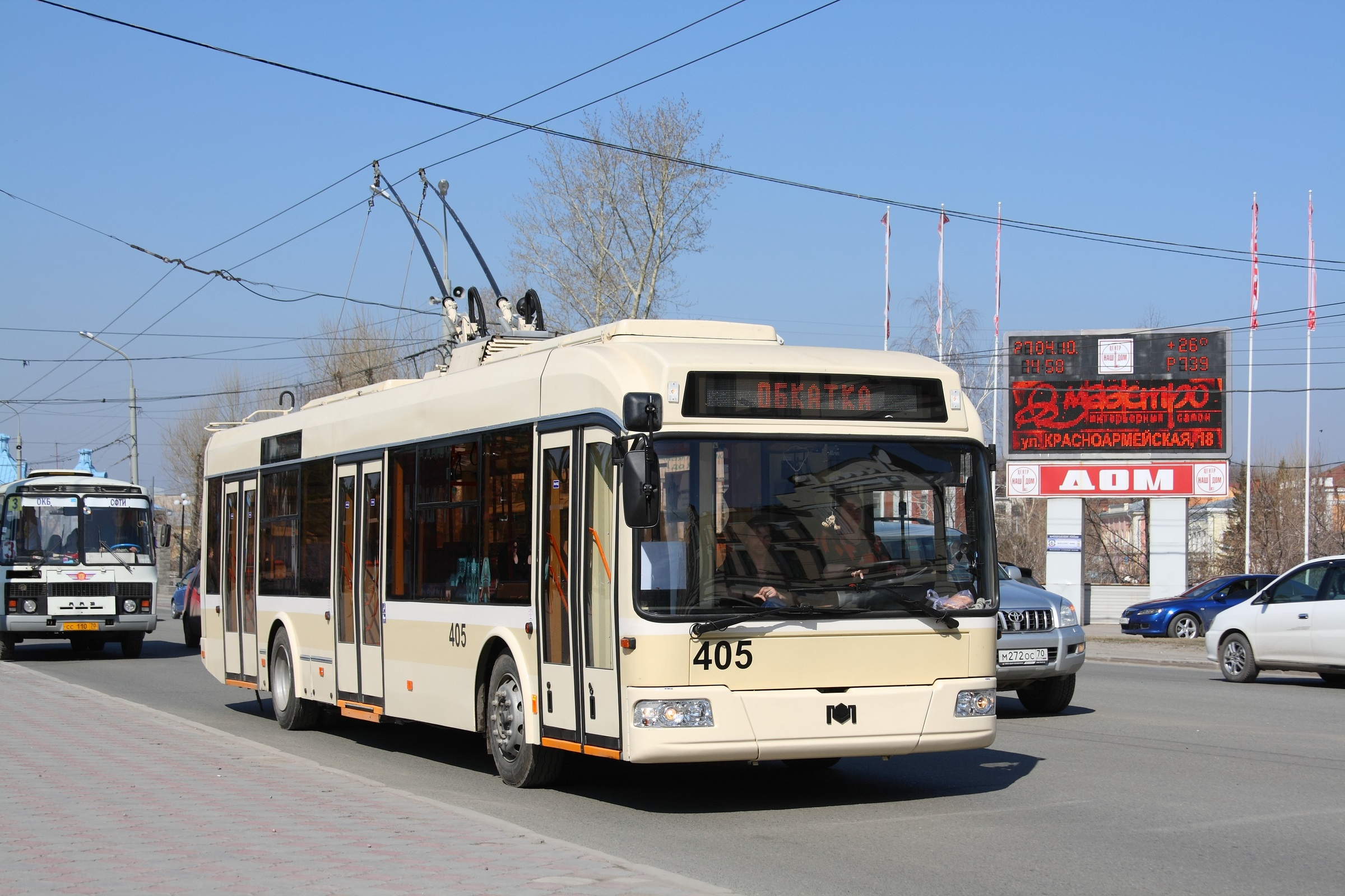 Tomsk trolleybus BKM 321 No. 405.